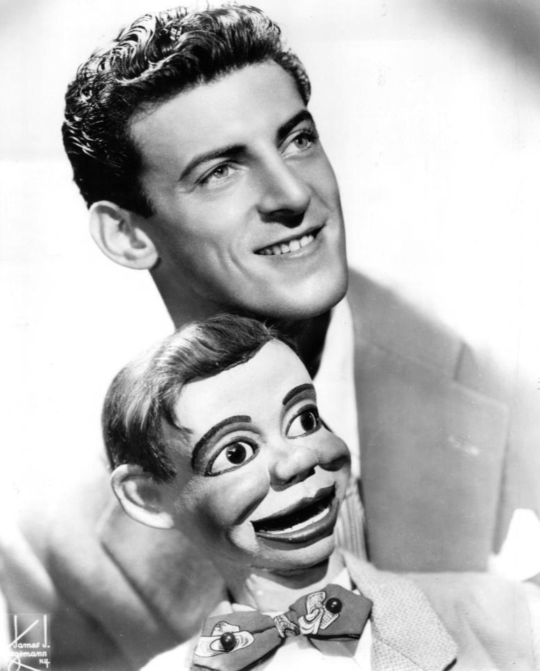 Ventriloquist Paul Winchell with Jerry Mahoney publicity photo.